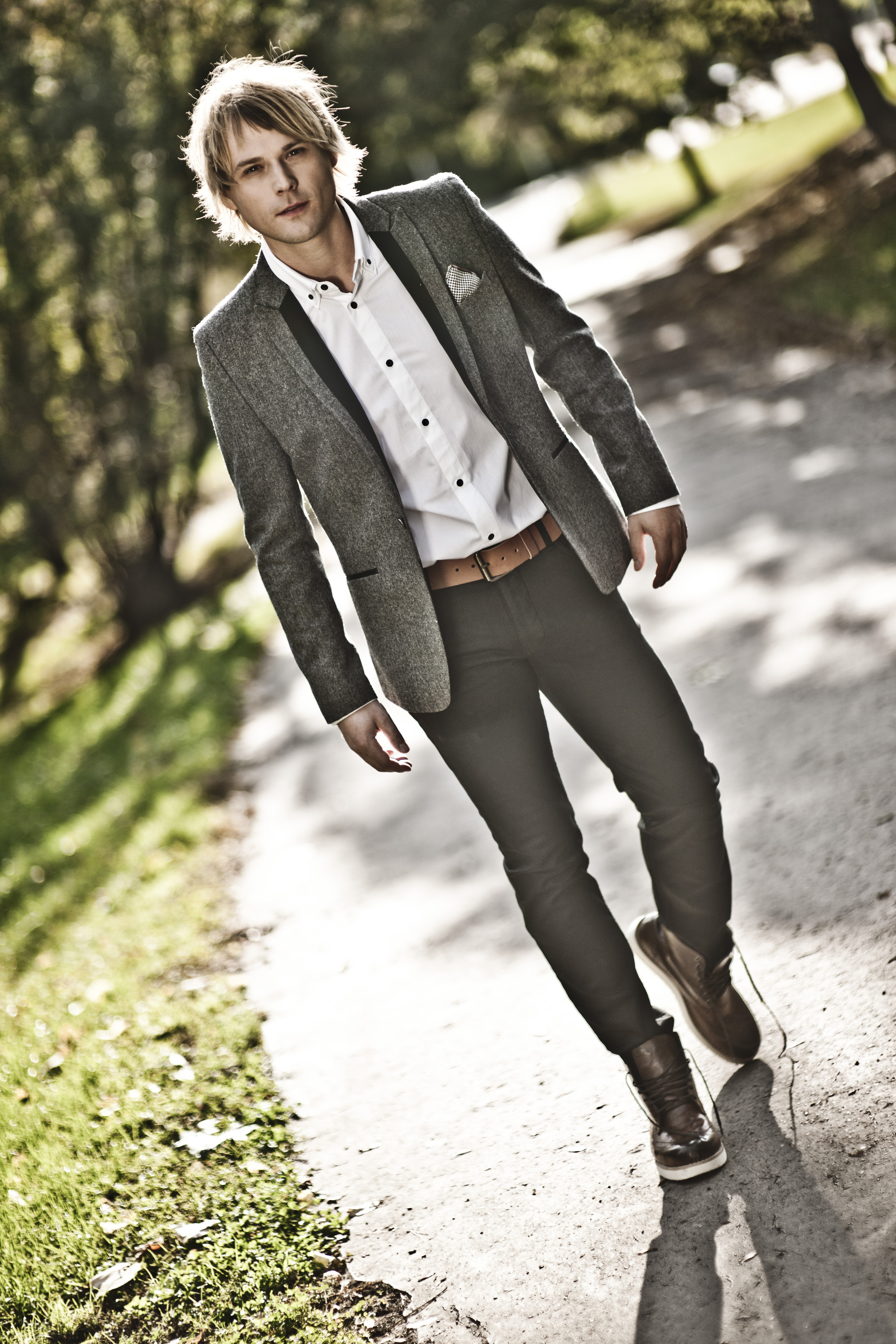 Supraphon 4